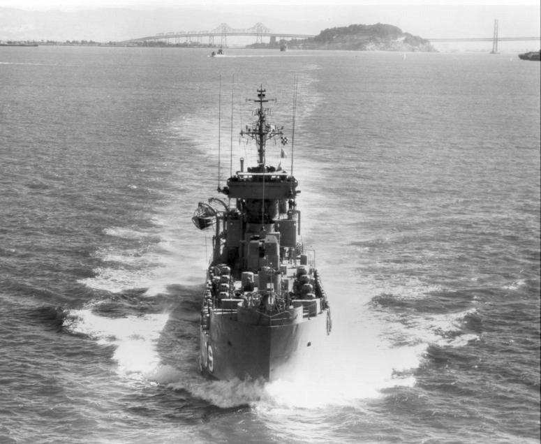 USS Clarion River (LSMR-409) sailing through the San Francisco Bay with Alcatraz Island and the Bay Bridge in the background